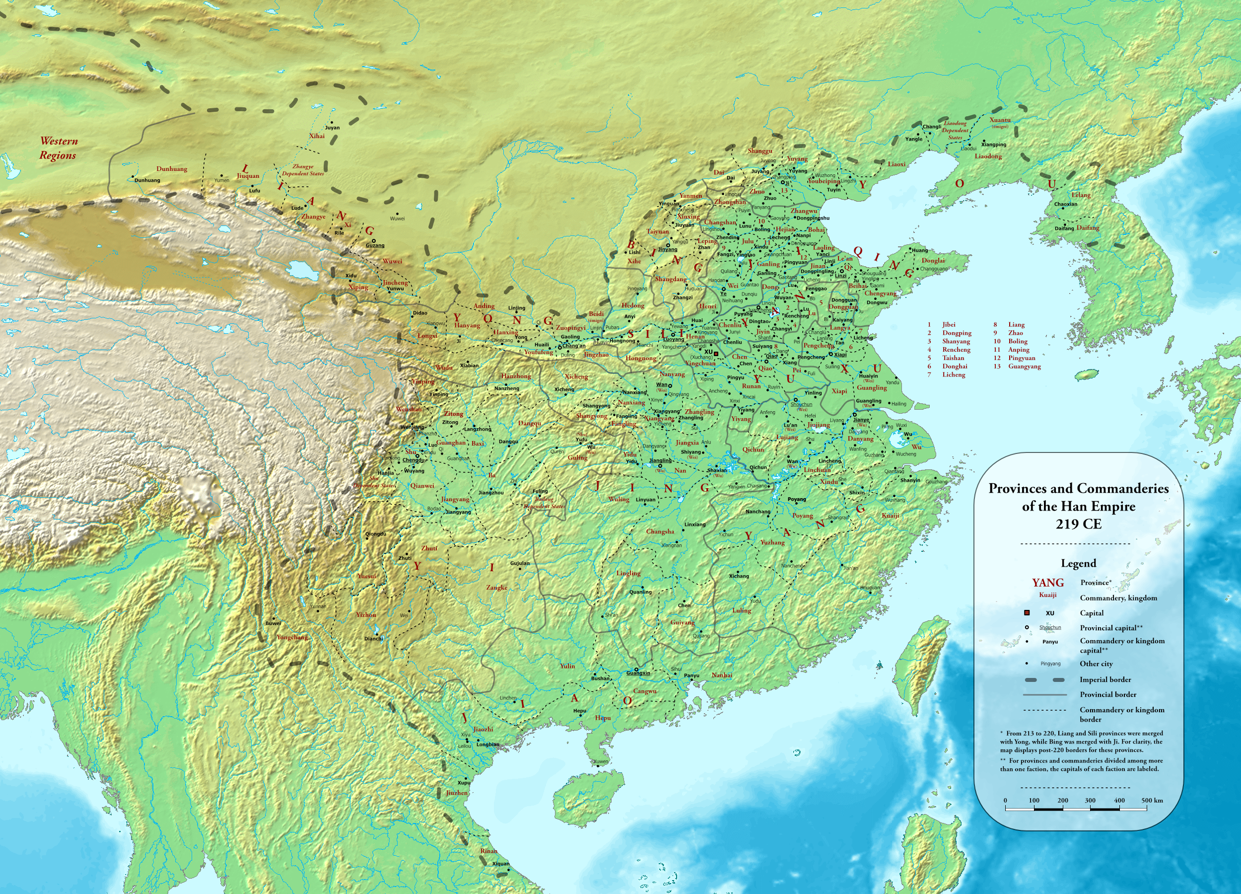 Provinces and commanderies of the Han Dynasty in 219 CE, during the Jian'an era